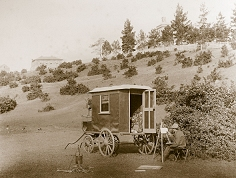 Image of caravan in Tasmania taken by Frank Styant Browne, taken either summer 1896 or autumn 1899.